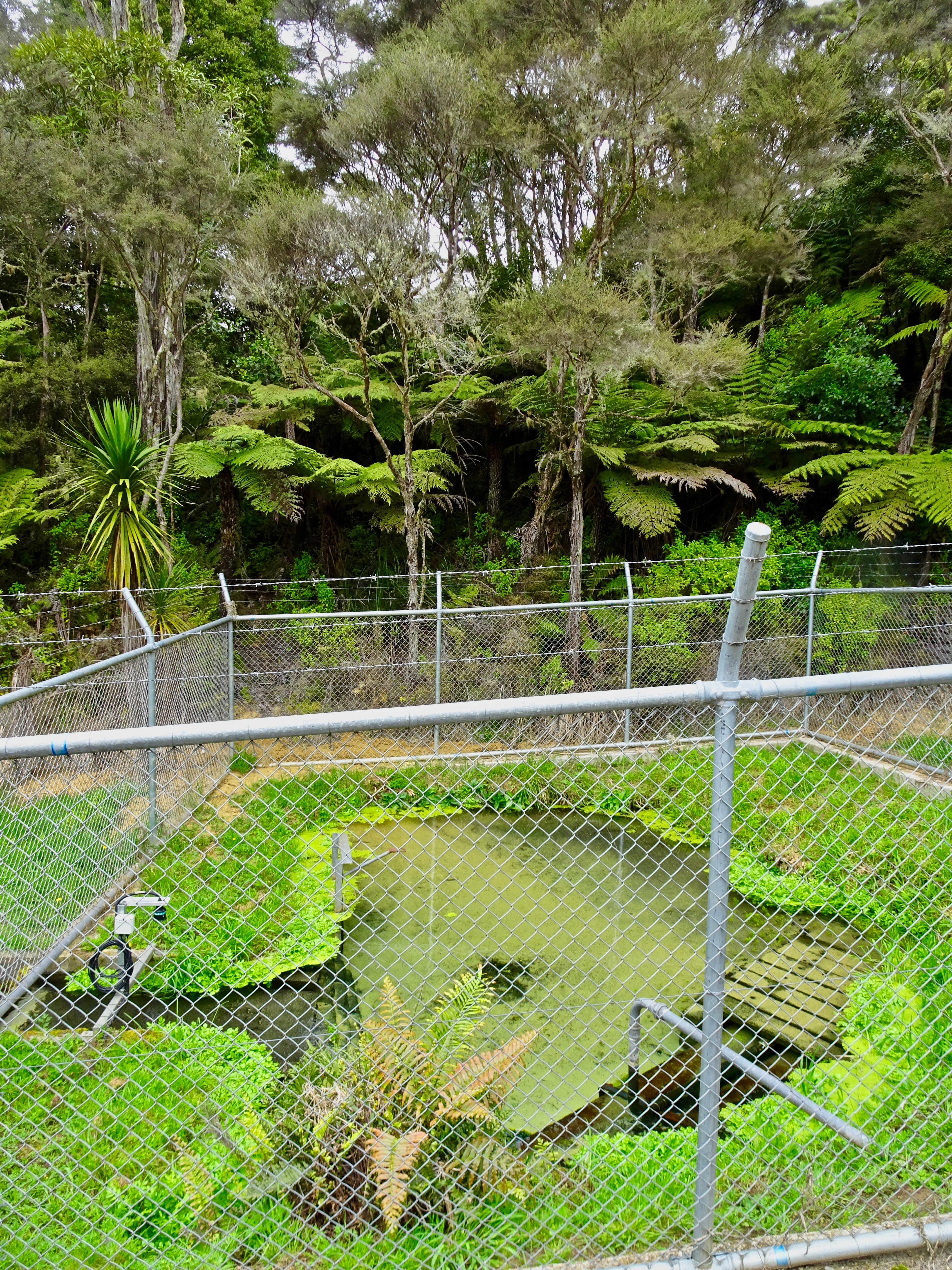 shows larger fence around the spring than the previous photo